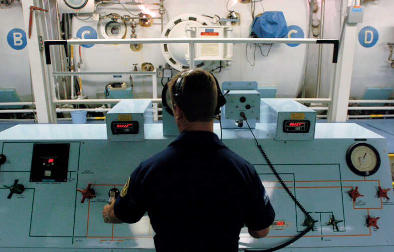 030216-N-6967M-009 HTC(DSW) Bart Monroe uses the manual operating panels to dive the complex to 100 feet. All chambers of the complex can be isolated and controlled manually or by the control room. (All Hands, June 2004, pg. 0) Photo by Photographer's Mate 1st Class (AW) Shane T. McCoy. This photo was taken for, but did not appear in the magazine. (RELEASED)